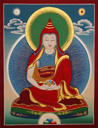 Vimalamitra, 8th Century Indian Scholar